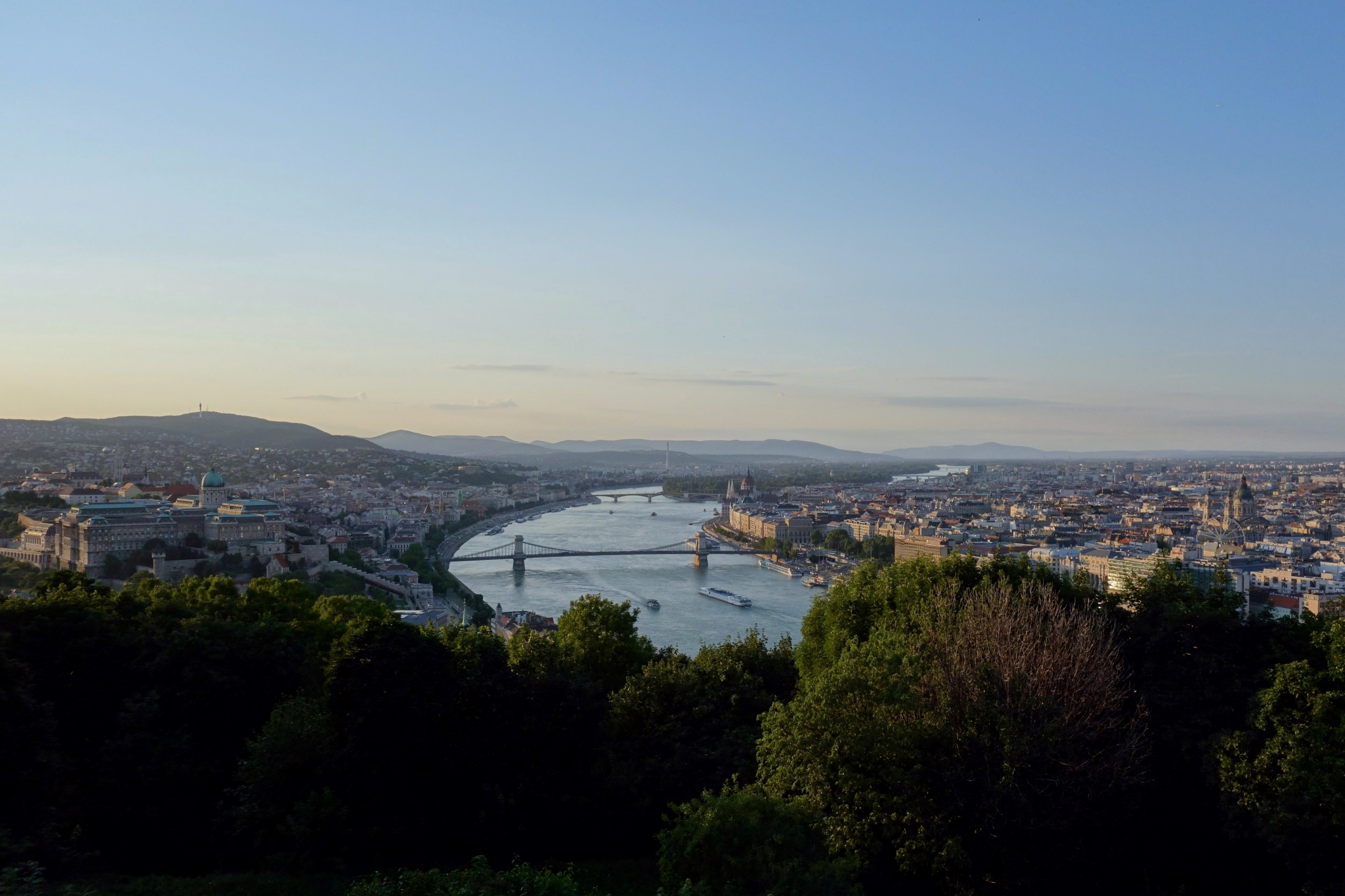 panorama of Budapest taken in the evening at Gellért Hill